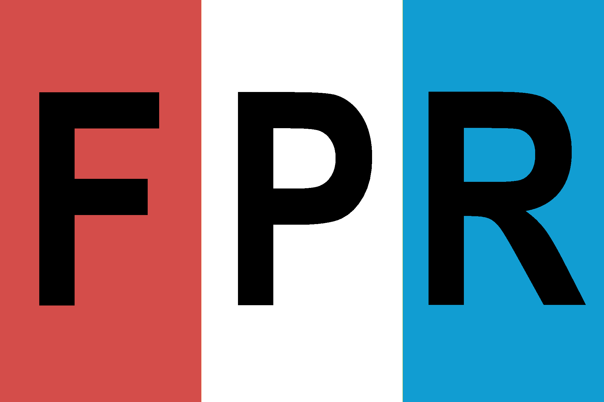 Flag of the Rwandan Patriotic Front.